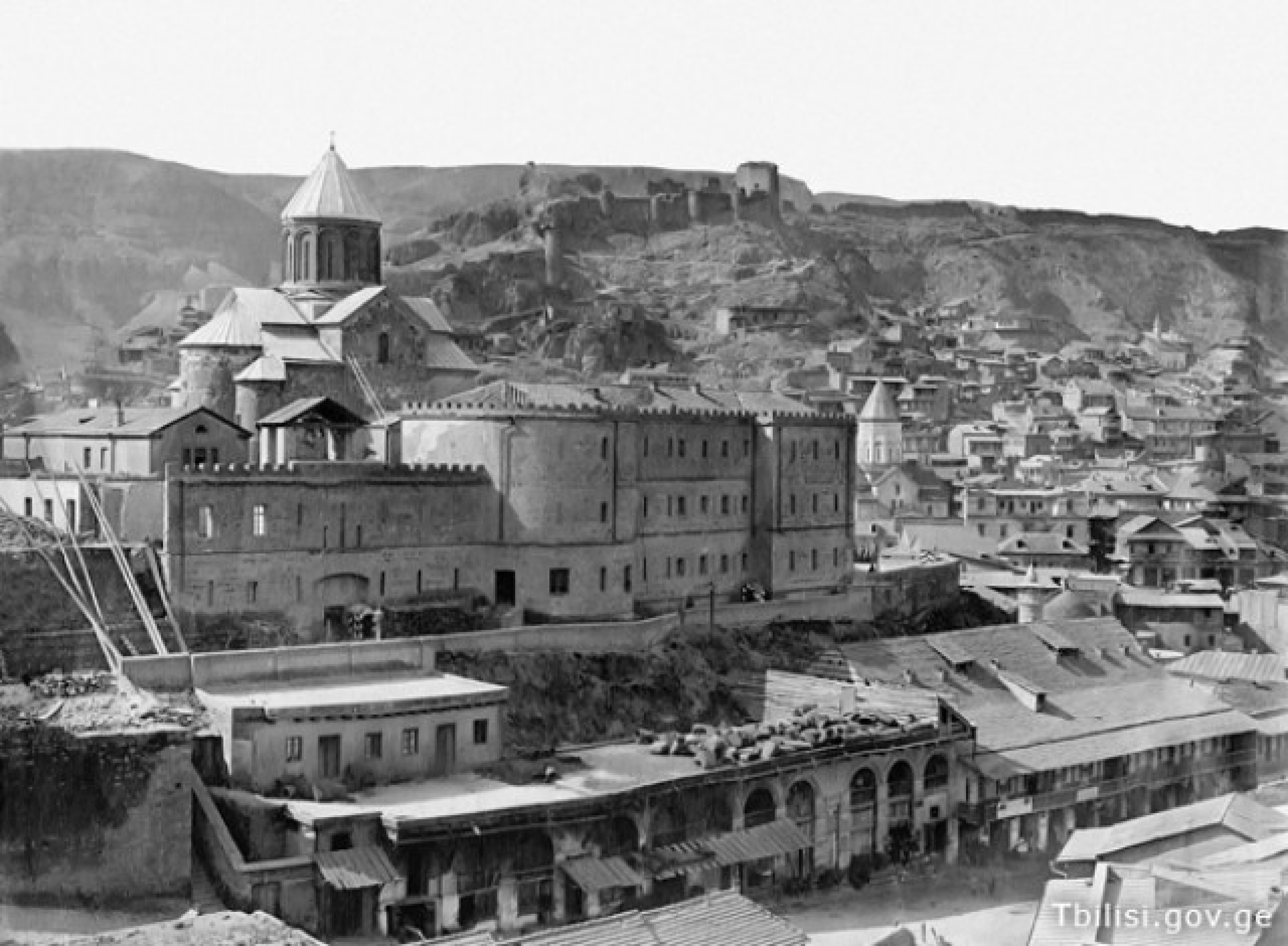 Old Tbilisi